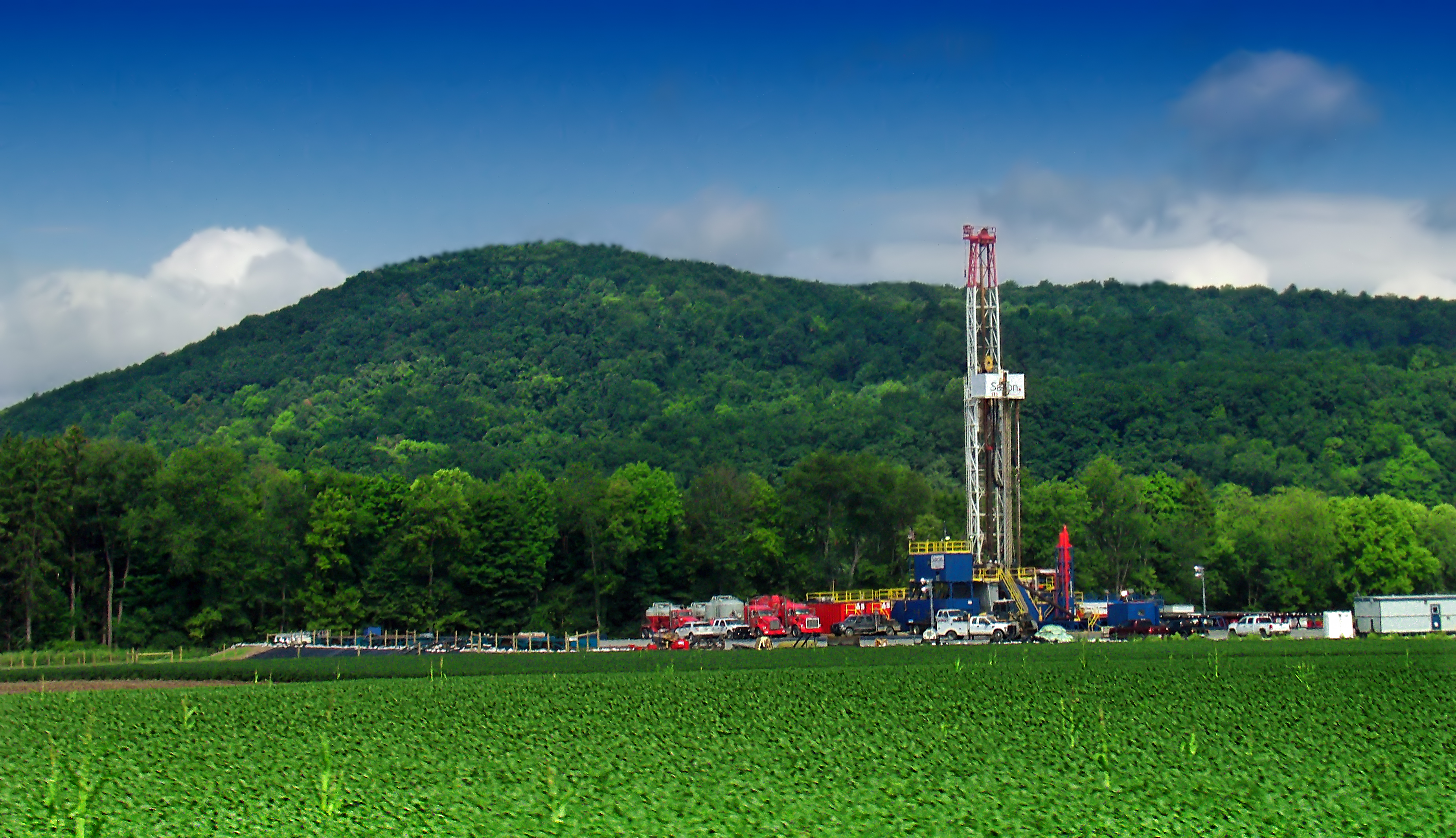 Marcellus shale gas-drilling site along PA Route 87, Lycoming County.